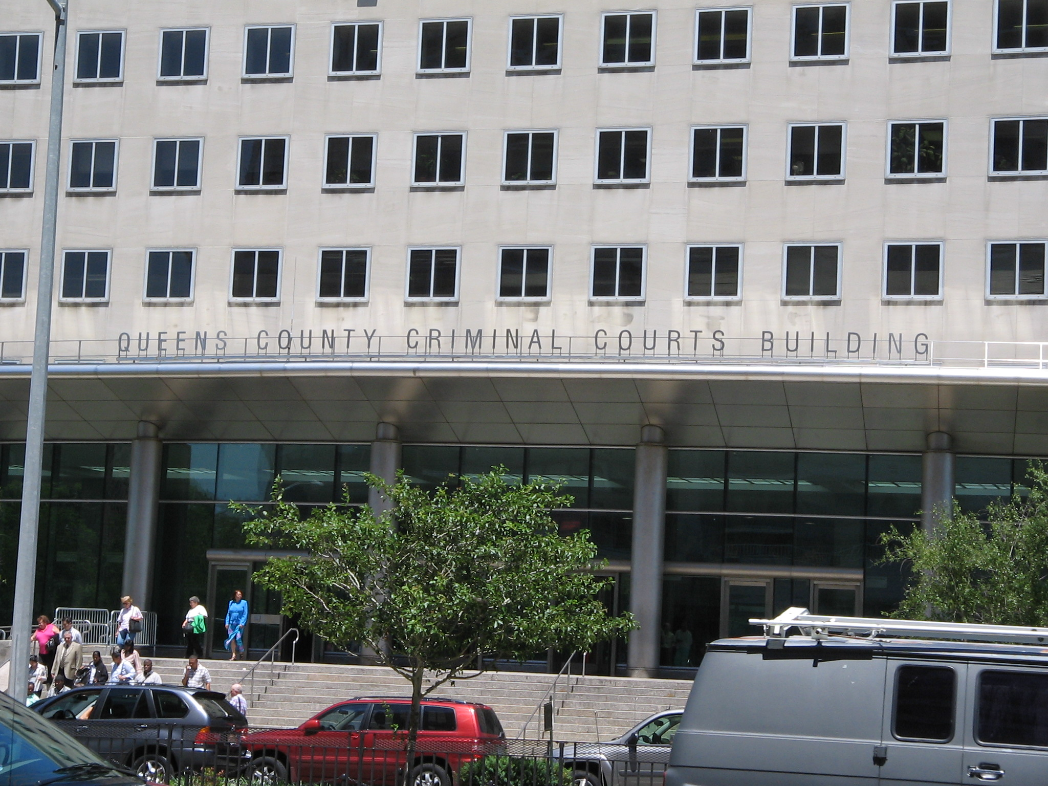 Queens County New York Supreme Court and City Court Building